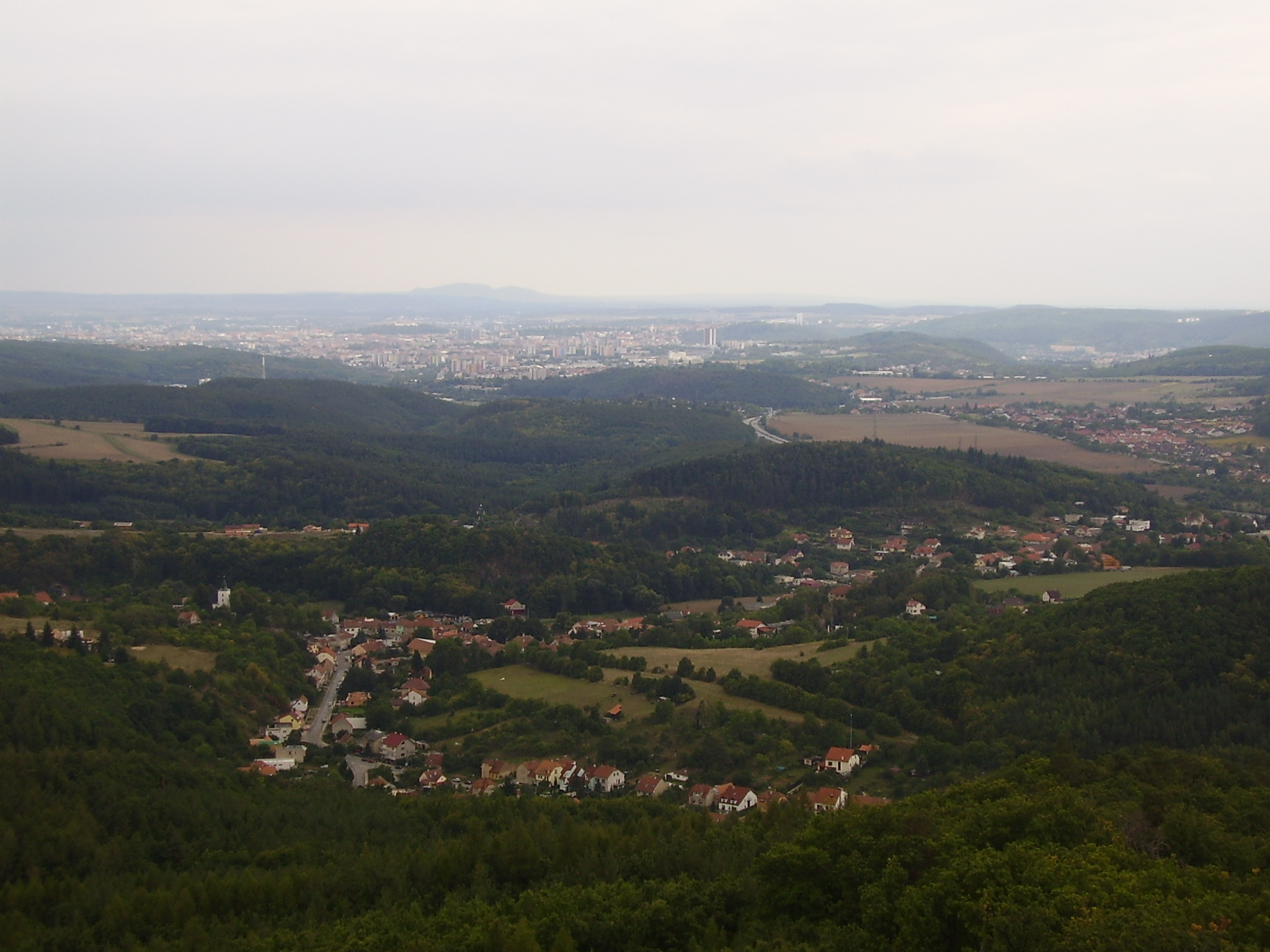 Observation tower Babi lom - view towards Brno